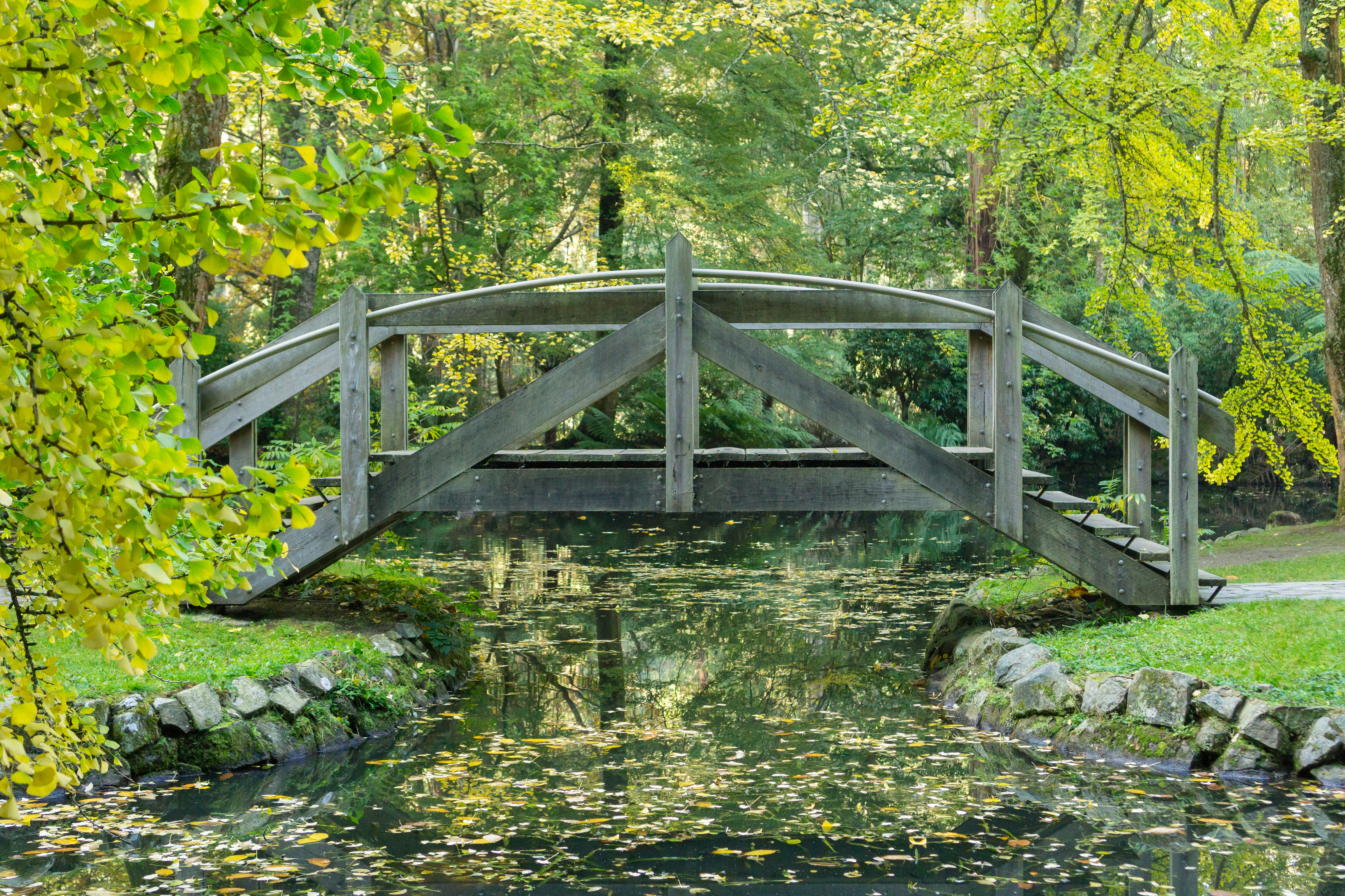 Bridge over lake at Alfred Nicholas Memorial Gardens in Dandenong Ranges National Park.